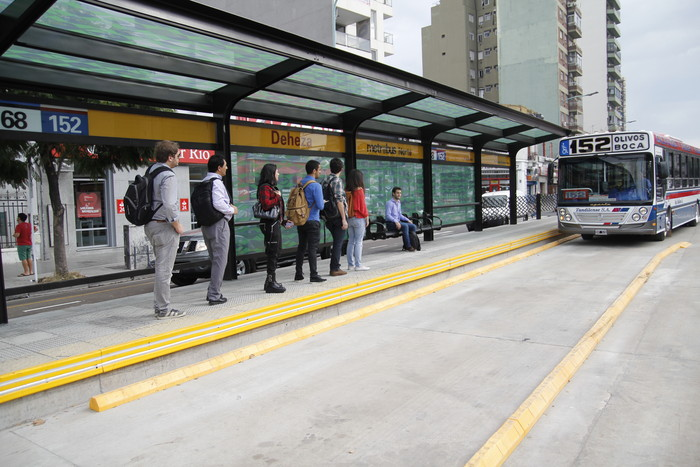 Number 152 bus arriving at Deheza station on Metrobus Cabildo.